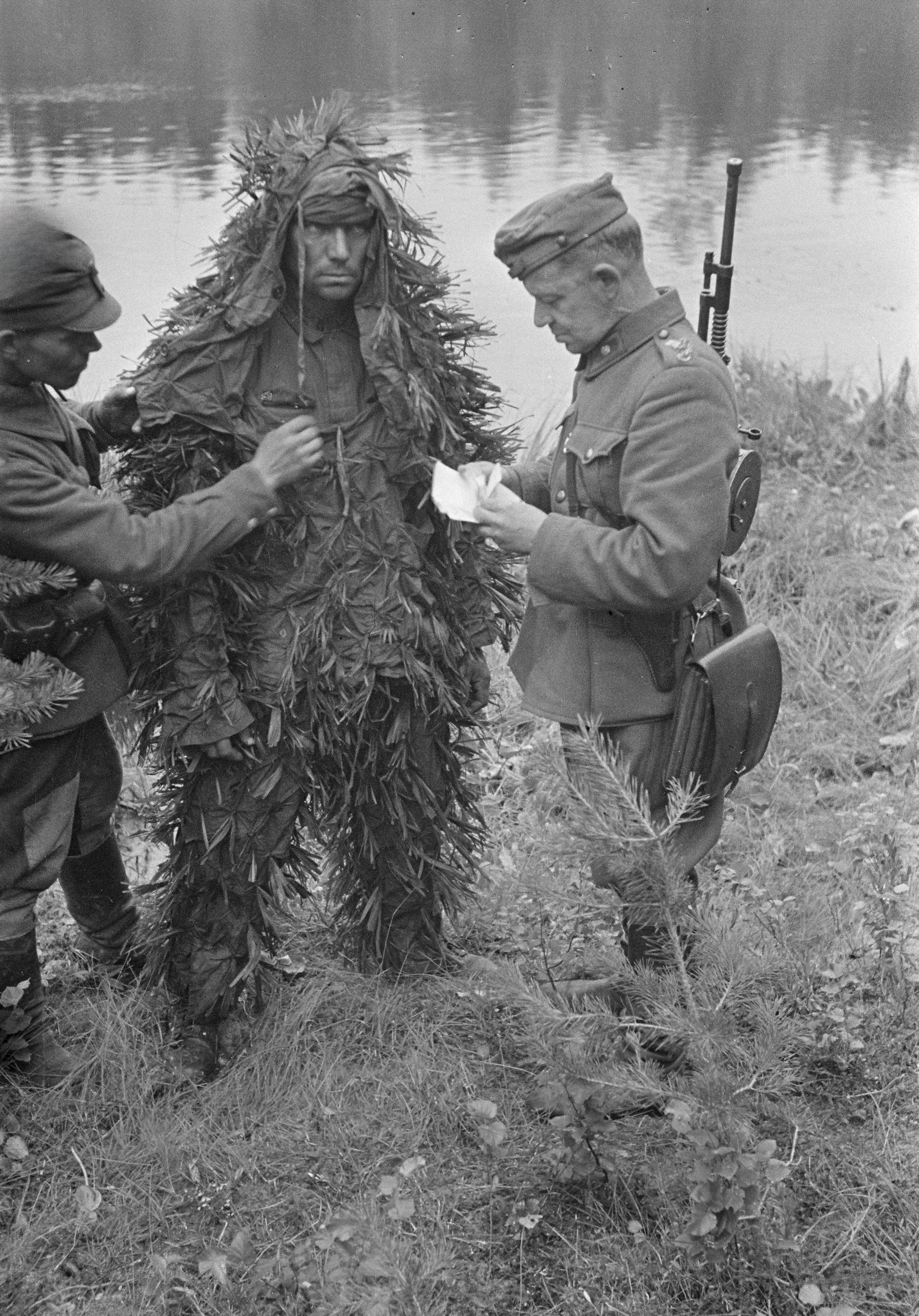 Major Martti Aho interrogates a camouflaged Soviet prisoner of war in Jessoila/Essoila in Pryazhinsky District in the Continuation War.